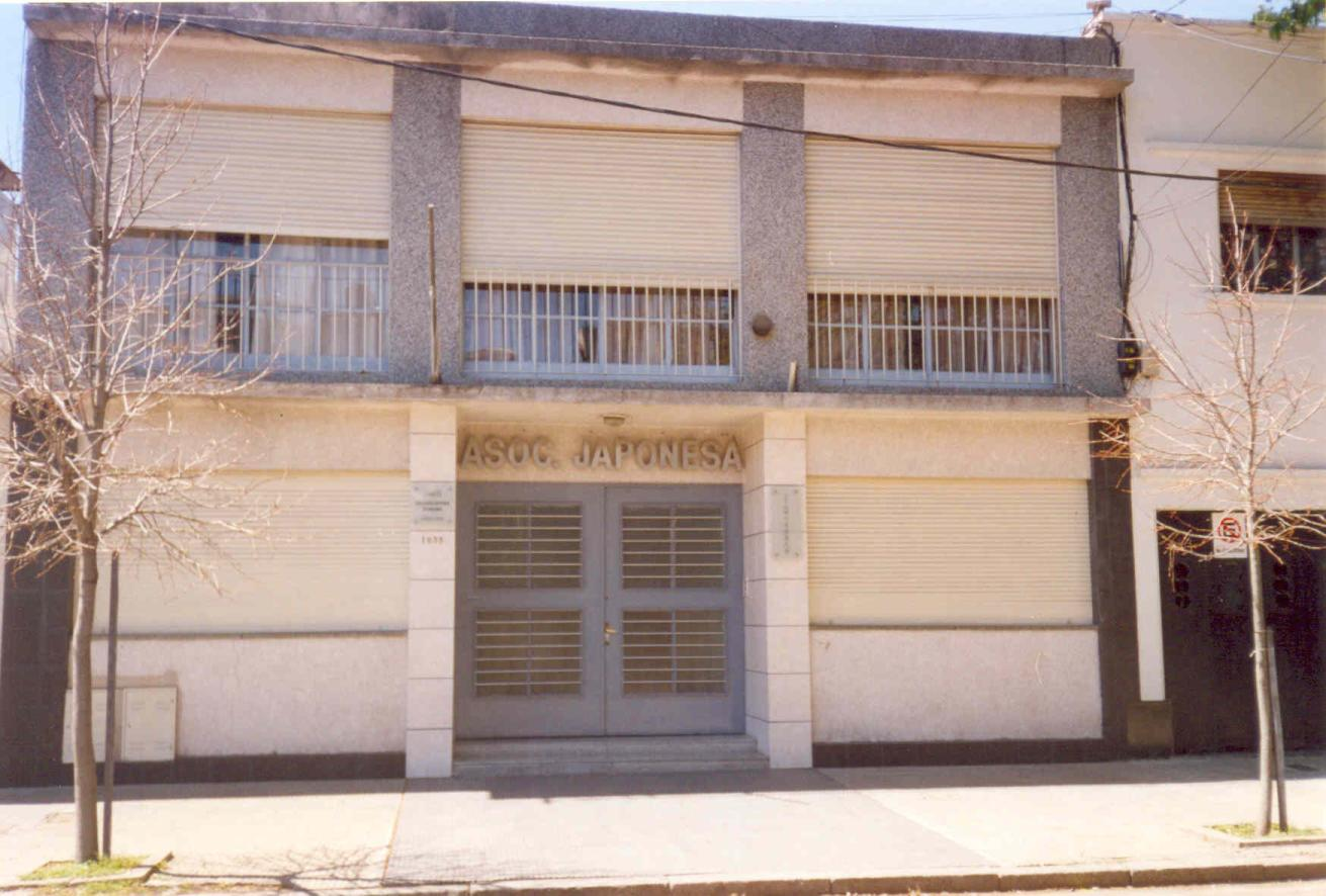 The facade and front door of the Japanese Association in Rosario, Argentina. The Association hosts a number of cultural activities, courses of Japanese language, calligraphy, taiko drum-dancing, bonsai, etc. I, Pablo D. Flores, took this picture myself in October 2005.